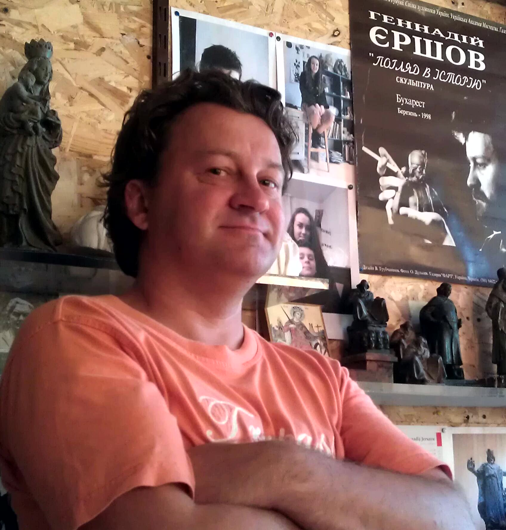 Gennadij Jerszow